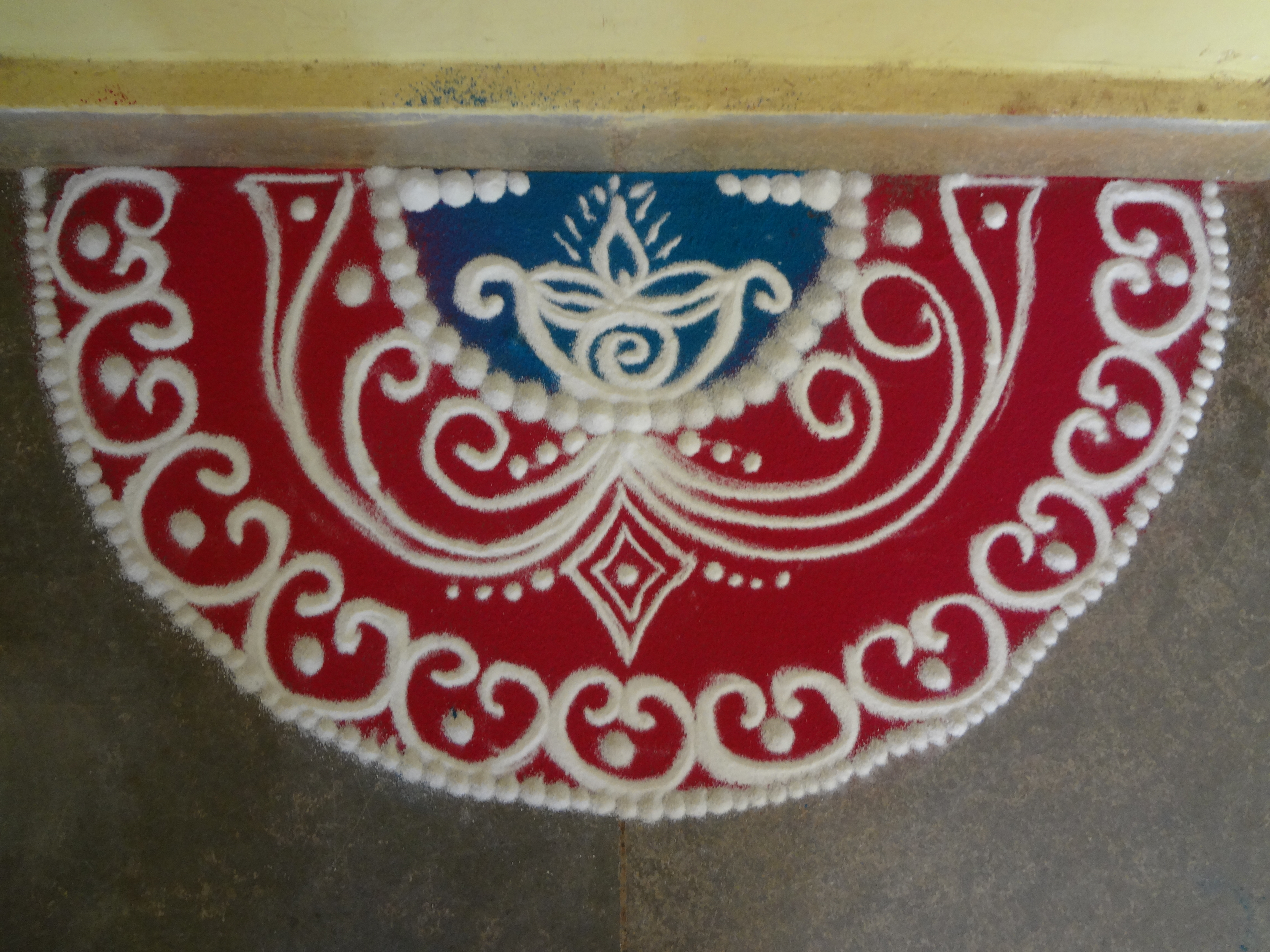 Rangoli from goa